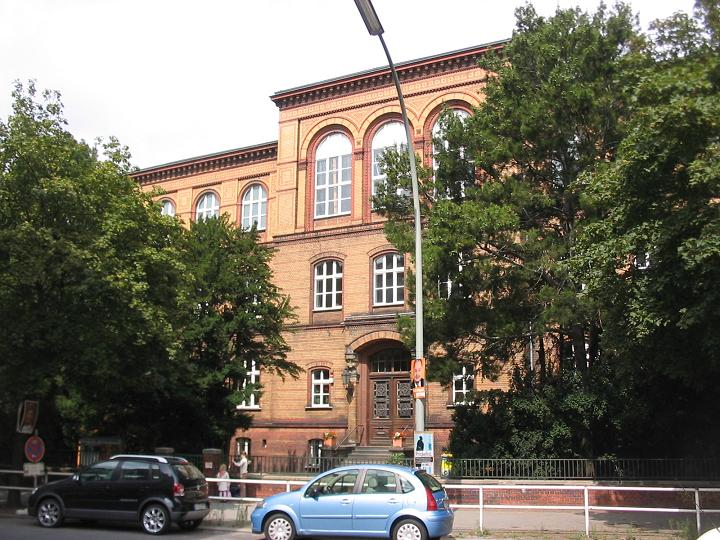 Heinrich-von-Kleist-Park in Berlin-Schöneberg. „Haus am Kleistpark“, former „Botanical Museum Berlin“, today museum of local history Schöneberg, Musicschool, etc.